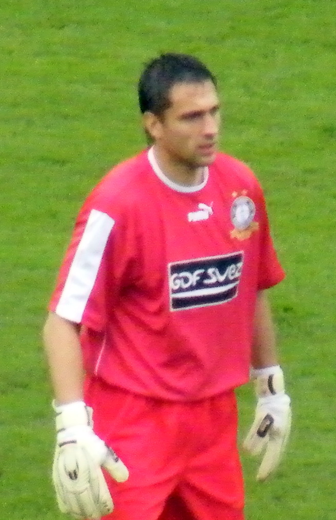 Szabolcs Balajcza Hungarian association football player.